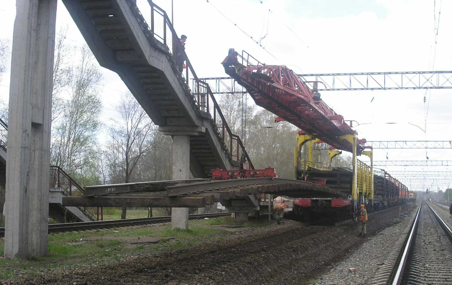 Rail track removing with Platov UK-25/9-18 type track laying crane